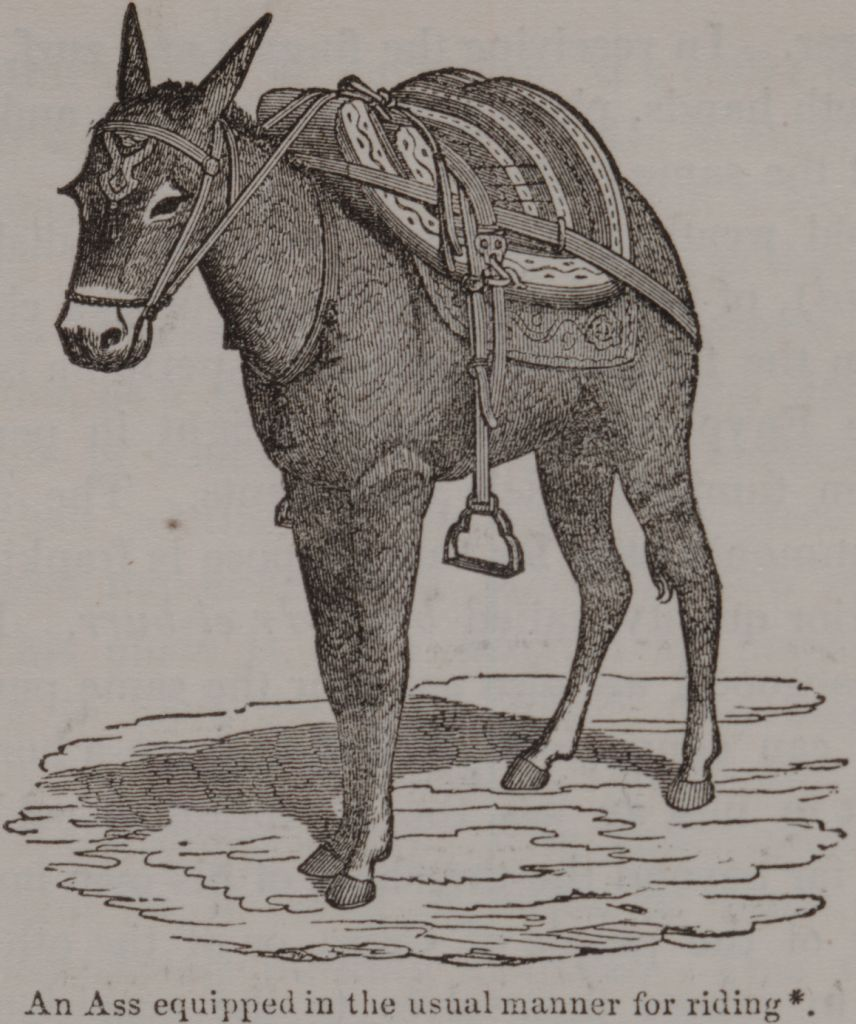 A donkey with a saddle on its back. Engraving (prints).